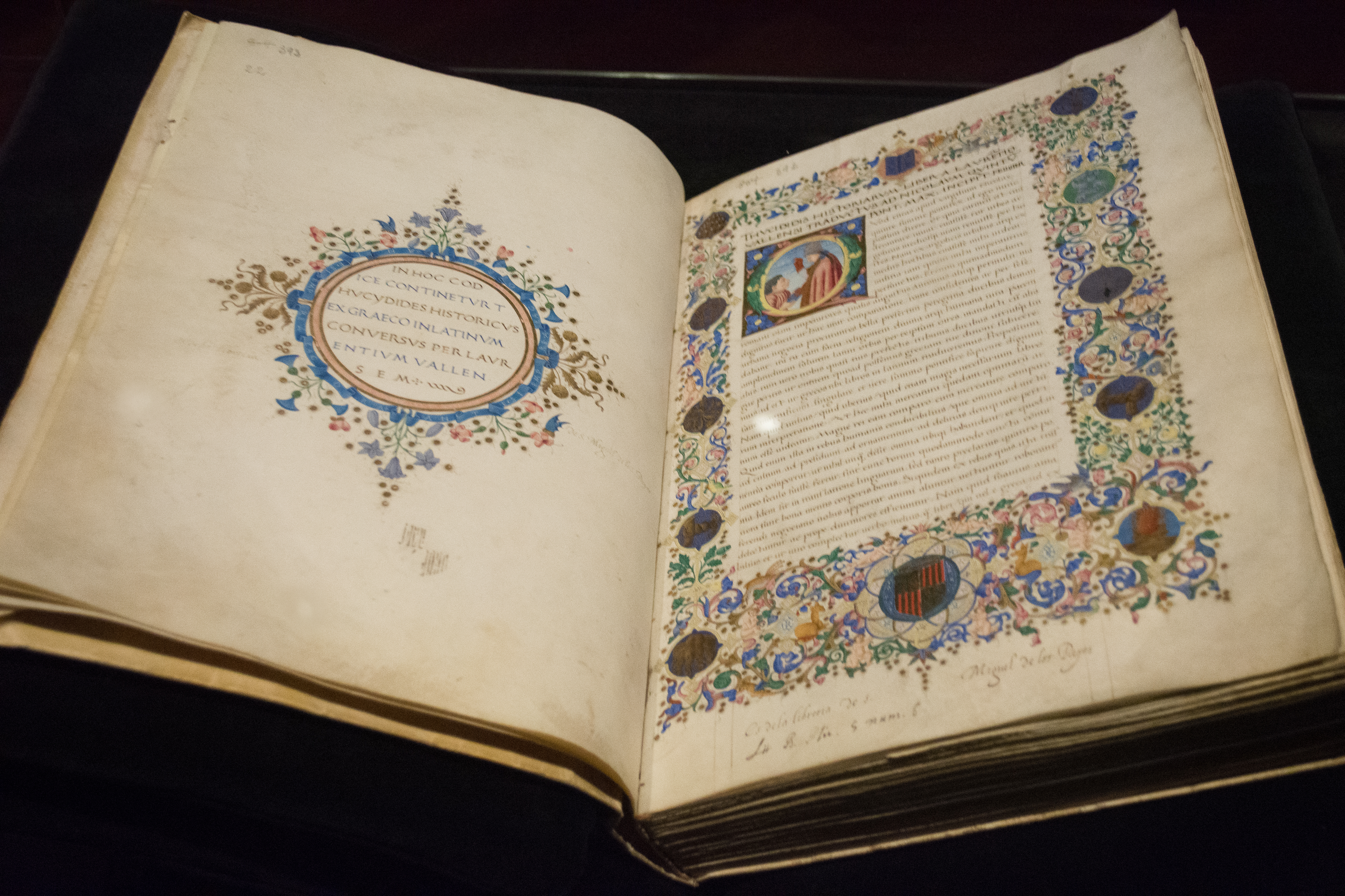 This manuscript of the History of the Peloponnesian War by the historian Tucídides, is the Latin version translated by Lorenzo Valla and dedicated to Pope Nicholas V. Decoration: the miniatures are attributed to Francesco di Antonio del Chierico (1433-1484). Orla and decoration of Florentine school. In the frontispiece, orles with the emblems of the king. In the lower part, shield of Calabria. Bookbinding: parchment. Loin decorated with feathers with a a candelieri style motif, golden edges. Provenance: Italy (1440-1499). 218 pages. 369 x 257 mm, binding 380 x 270 mm. Collection Duke of Calabria. University of Valencia. Historical Library. BH Ms. 392.